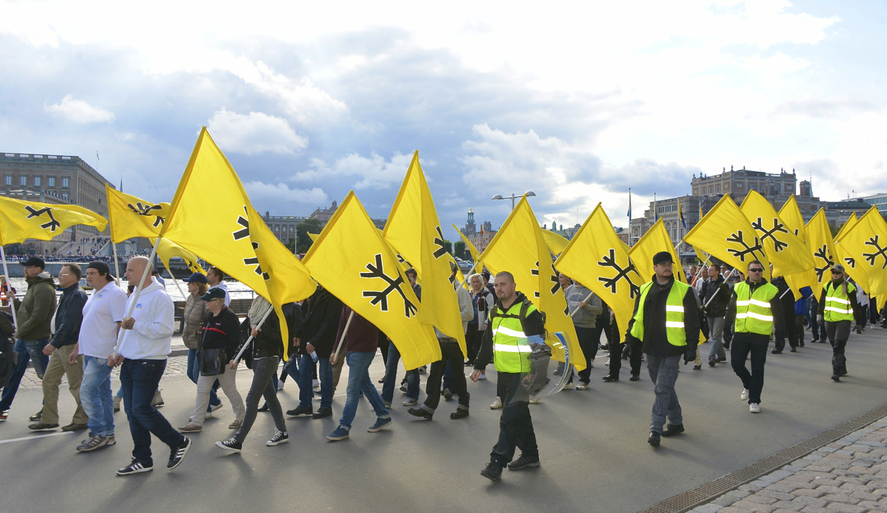 SvP rally in Stockholm August 30, 2014.